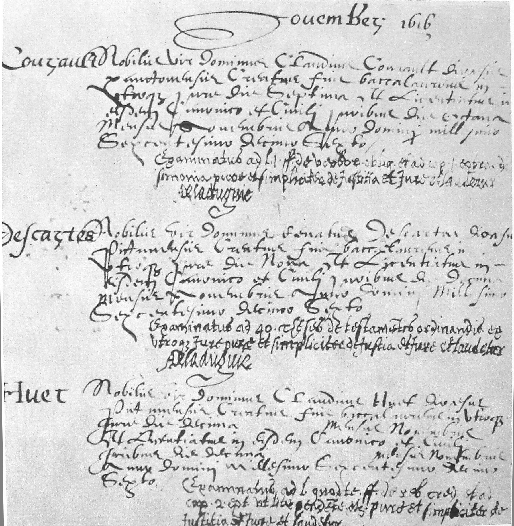 University of Poitiers (Bachelor and License of Laws) graduation registry for Decartes, 1616